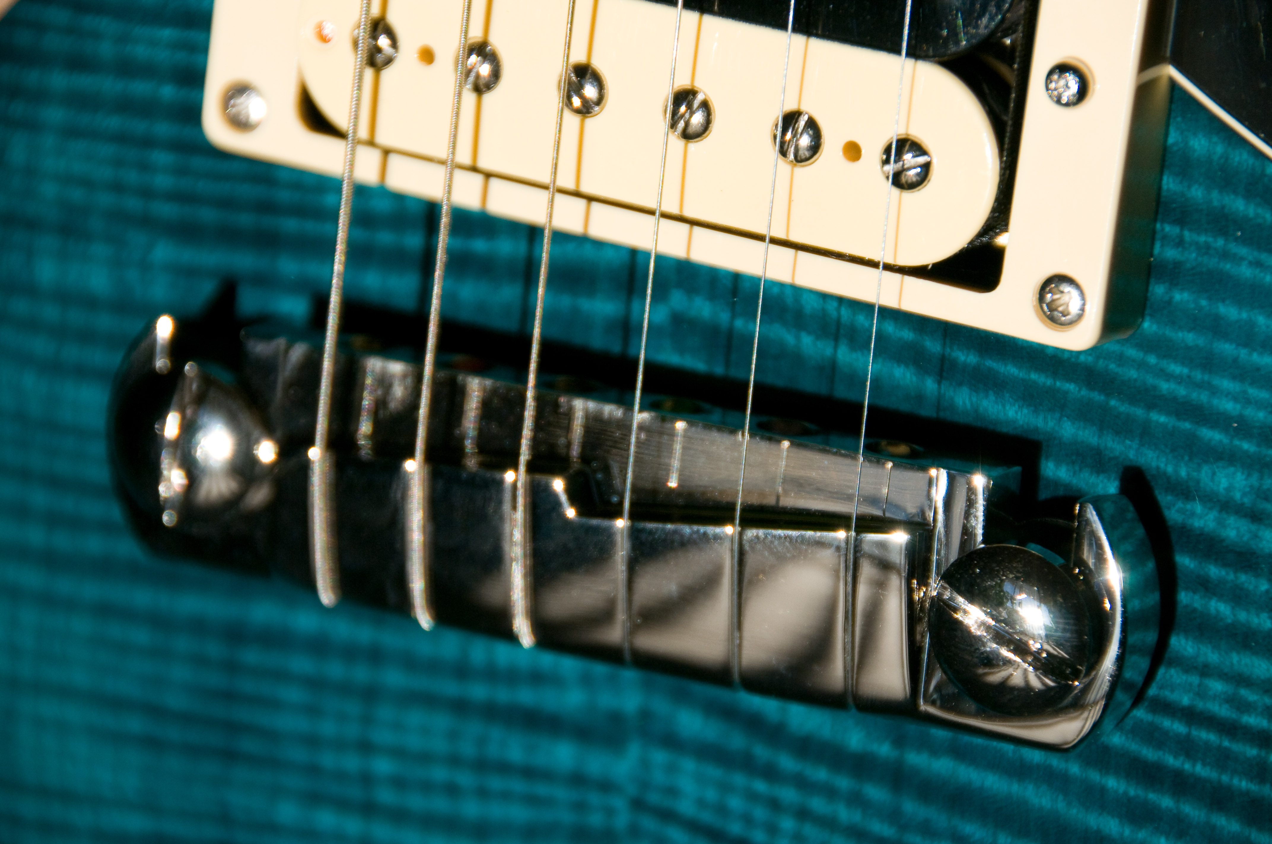 Wraparound bridge on a PRS SE Custom Semi-hollowbody.